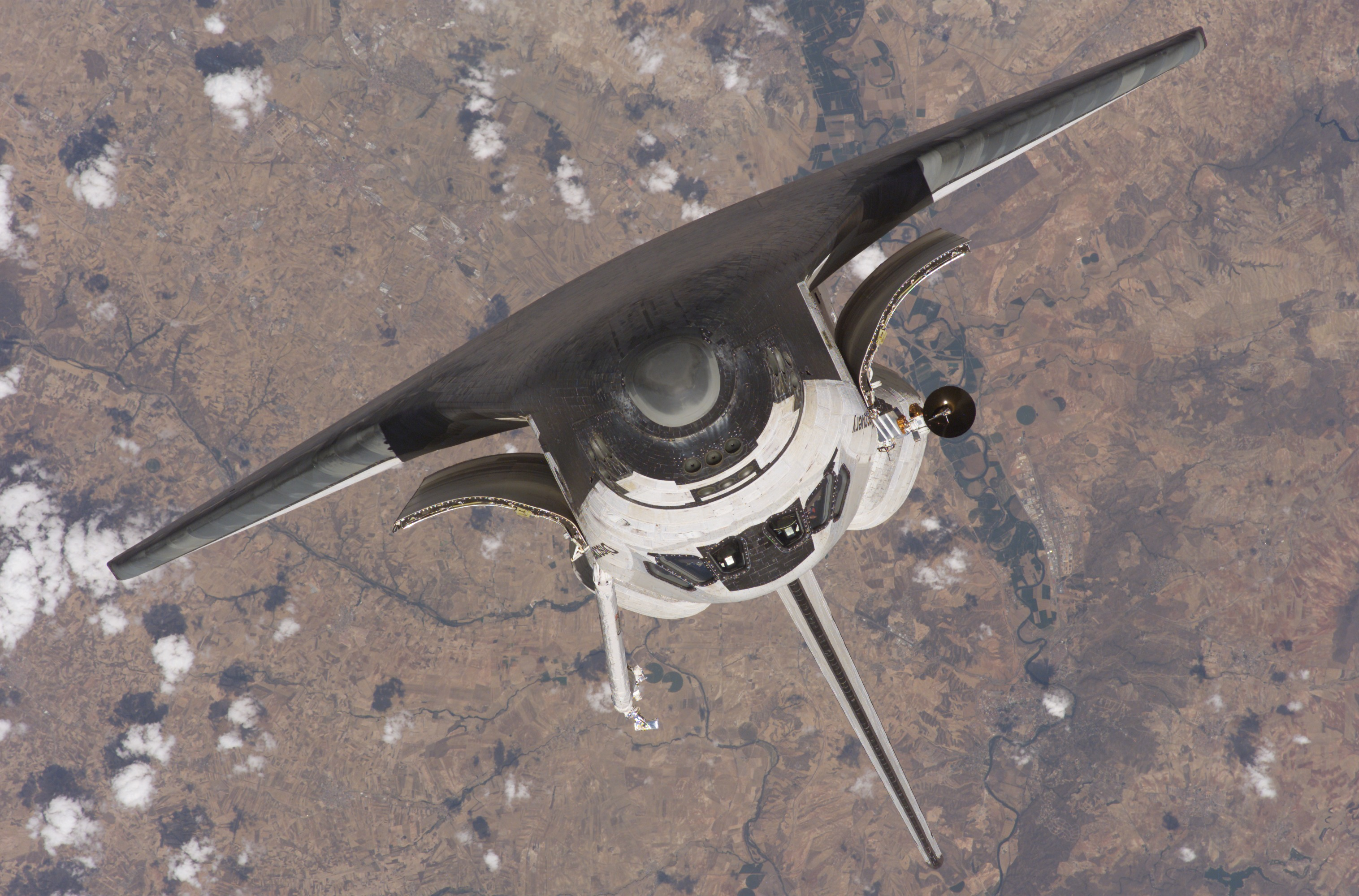 The Space Shuttle Discovery approaches the International Space Station for docking but before the link-up occurred, the orbiter "posed" for a thorough series of inspection photos. Discovery docked at the station's Pressurized Mating Adapter 2 at 9:52 a.m. CDT, July 6, 2006. Photo Credit: NASA